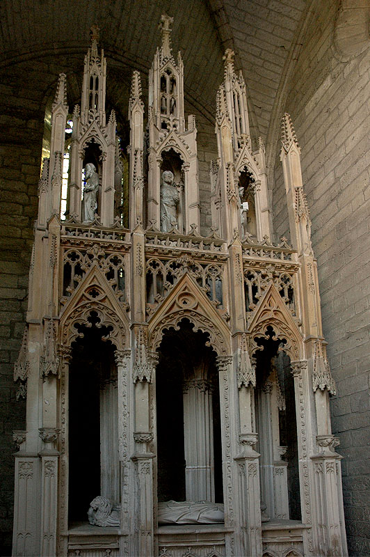 Chartreuse du Val de Bénédiction, Villeneuve-lès-Avignon, France